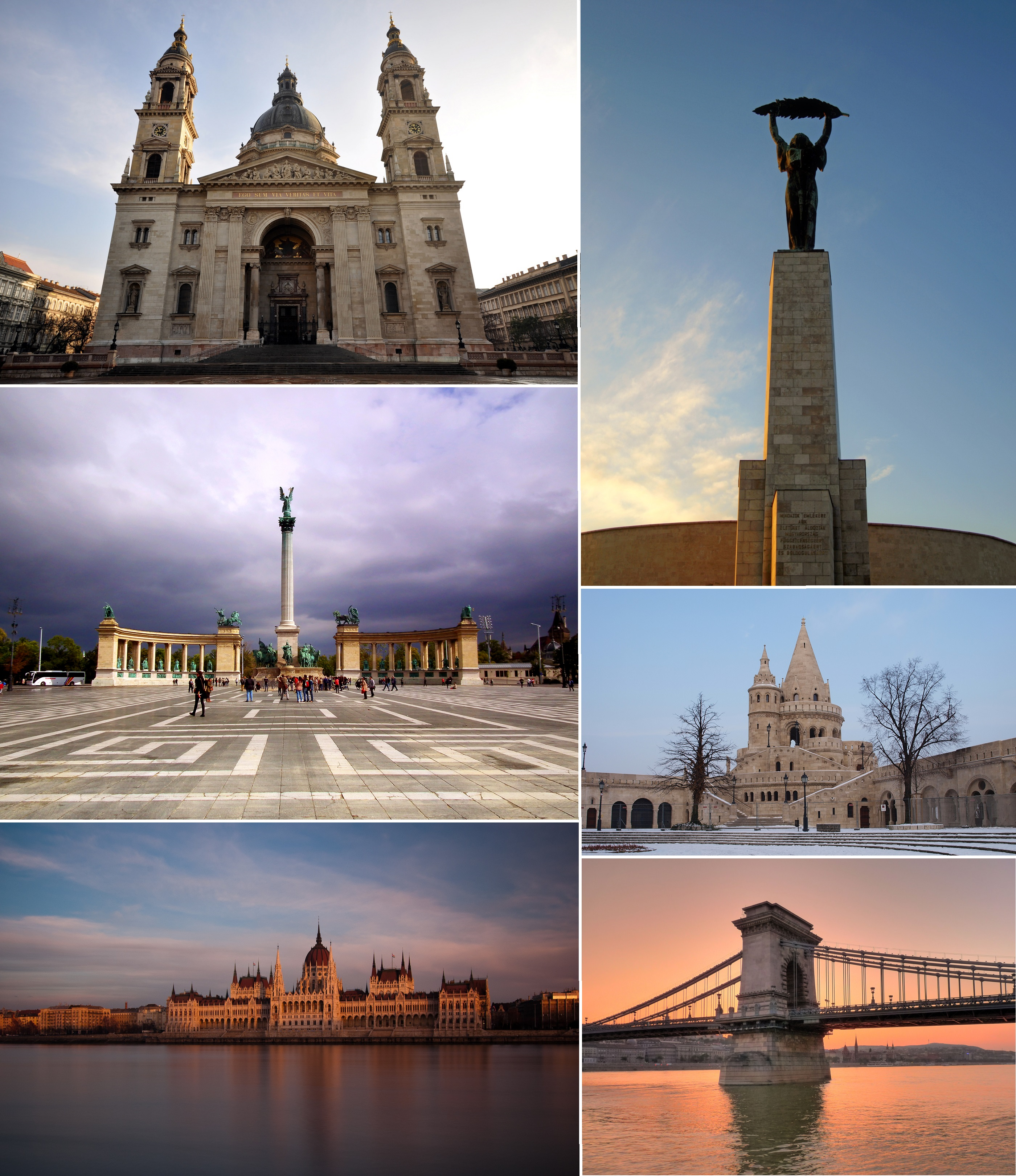 From top, left to right: St. Stephen's Basilica, Liberty Statue, Fisherman's Bastion, Chain Bridge, Hungarian Parliament Building, and Heroes' Square